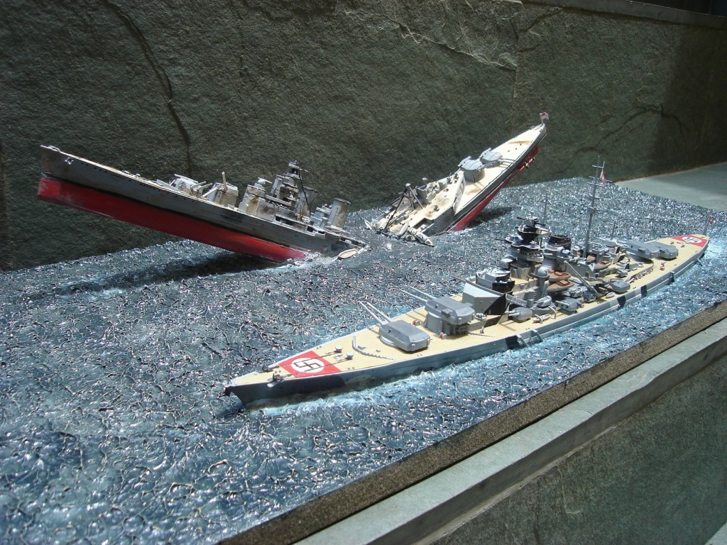 Bismarck vs HMS Hood. (Note, that before the battle with Hood, Bismarck had the black-and-white stripes as well as the swastikas removed)